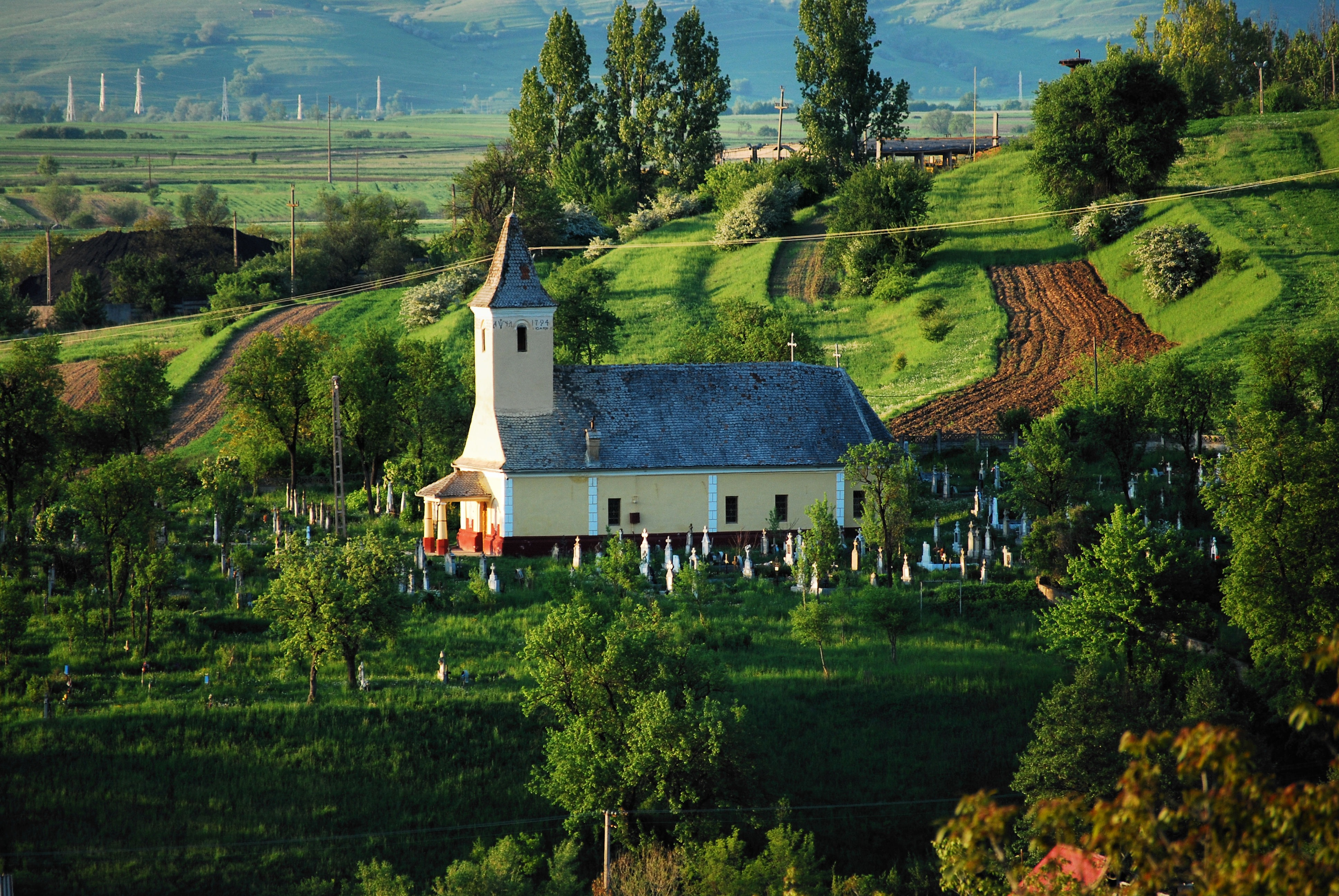 Cuciulata village, Romania